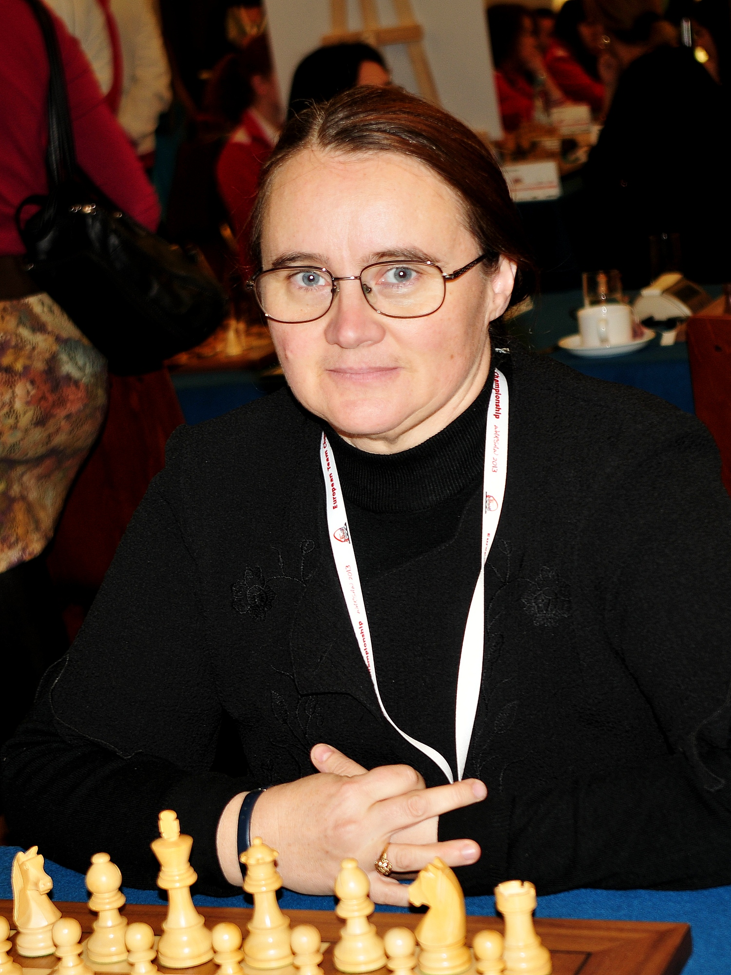 IM Cristina-Adela Foişor, European Chess Team Championship Warsaw 2013